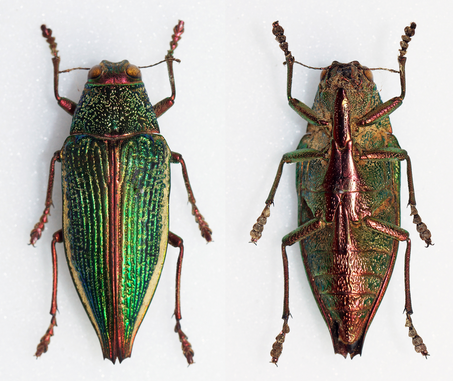 The Buprestidae beetle Psiloptera attenuata (Fabricius, 1793), female; taken in Espirito Santo, Brazil (collected in February 2015). Ben Sale collection. Photo posted on Flickr on October 12, 2019.